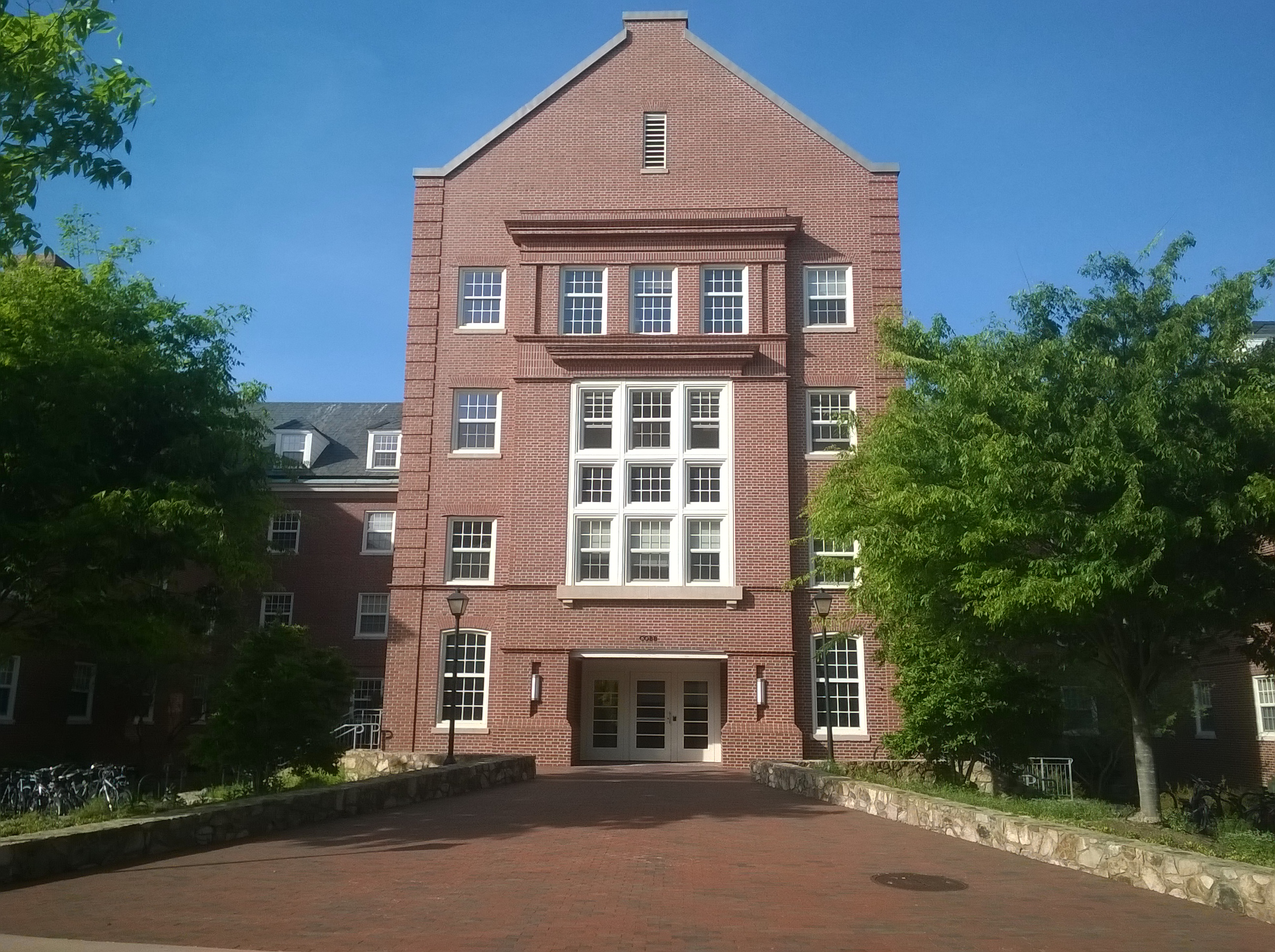 Cobb Residence Hall, University of North Carolina at Chapel Hill